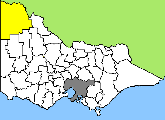 Map of Victoria/Australia, LGA of the Rural City of Mildura highlighted